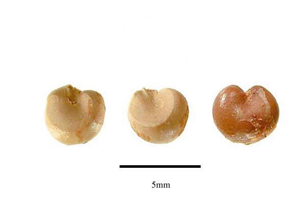 Schisandra chinensis (Turcz.) Baill.: seeds.